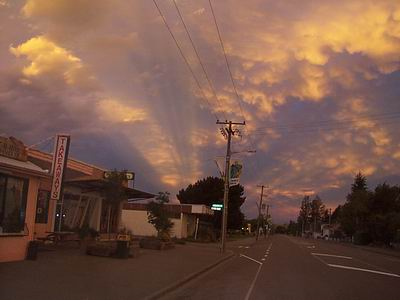 Oxford, New Zealand. Anticrepuscular rays seem to converge on the horizon opposite to the Sun. [1]